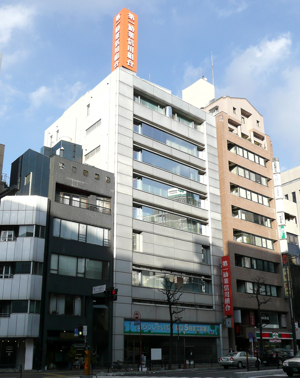 DAI-ICHI KANGYO CREDIT COOPERATIVE head office.